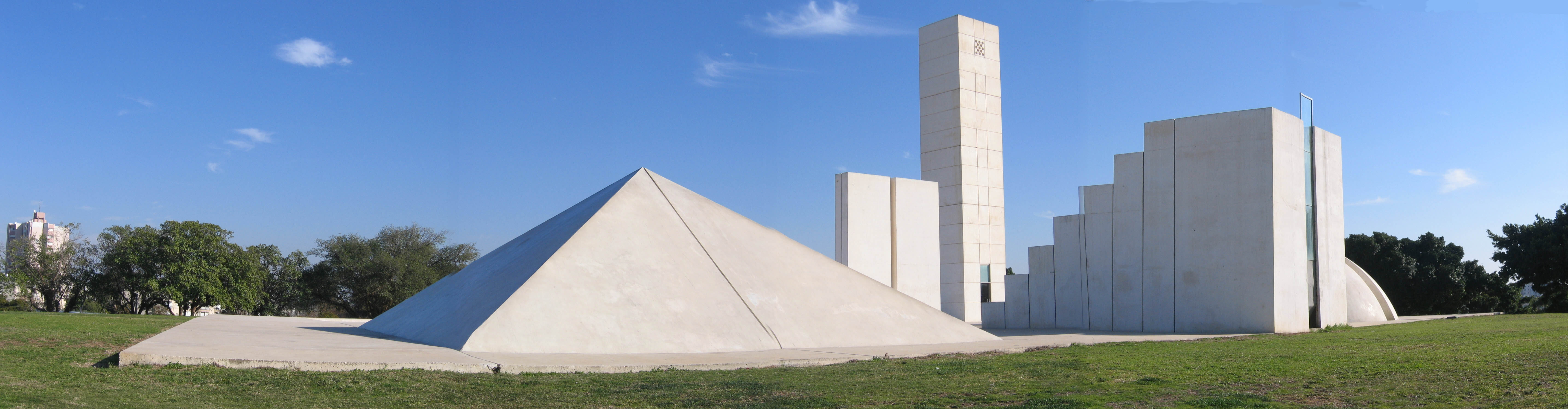 Kikar Levana (in he: "White Square") (1989) by Dani Karavan, Wplfson Park, Tel Aviv-Yaffo.